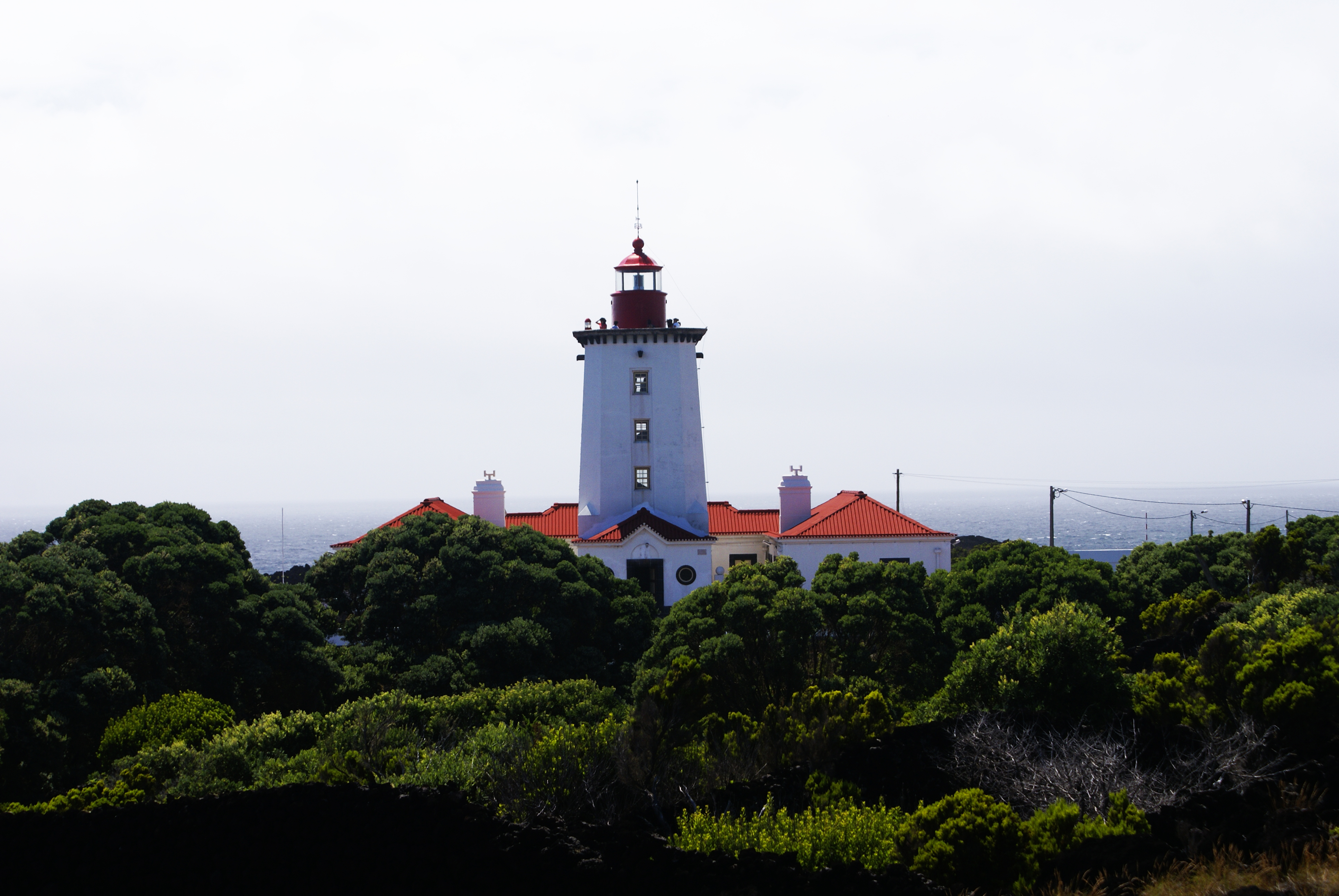 Farol da Manhenha, Piedade, vista geral, Lajes do Pico, ilha do Pico, Açores, Portugal